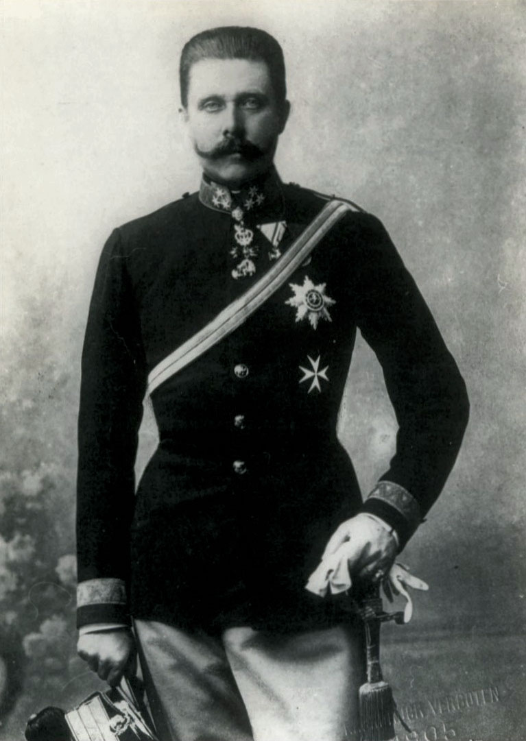 Archduke Franz Ferdinand of Austria wearing the uniform of an oberst (colonel) of an austrian artillery unit